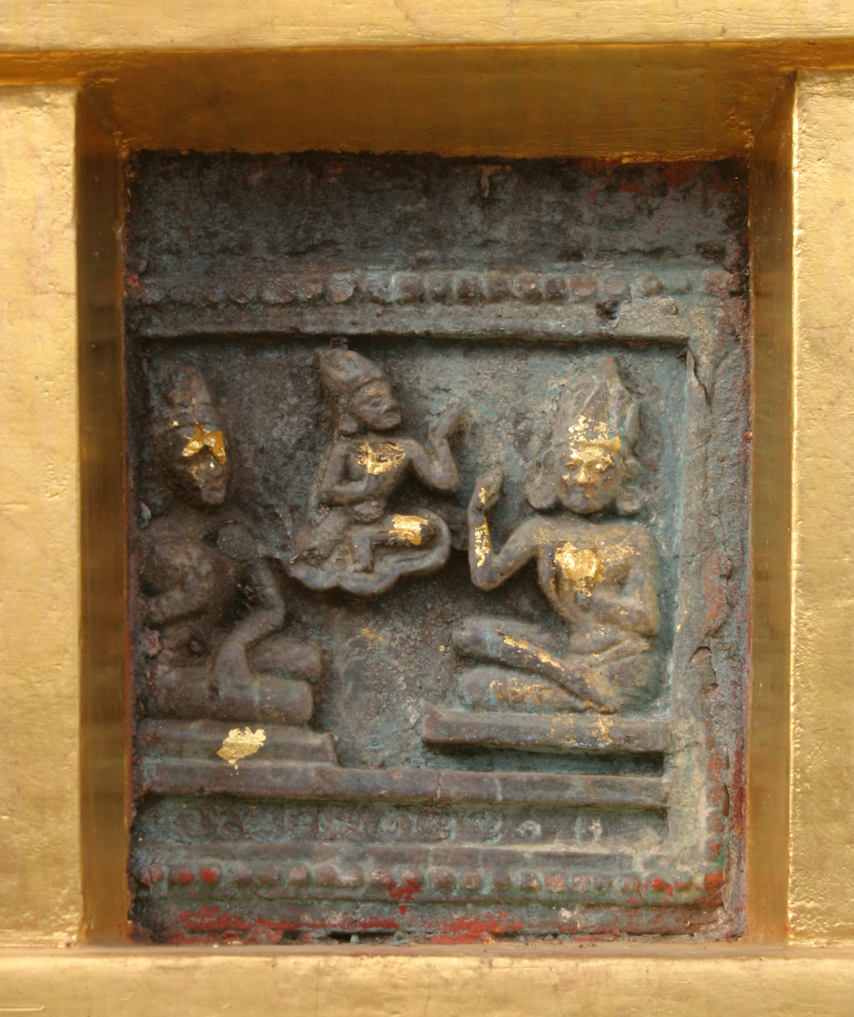 Shwezigon pagoda, Bagan, Myanmar.